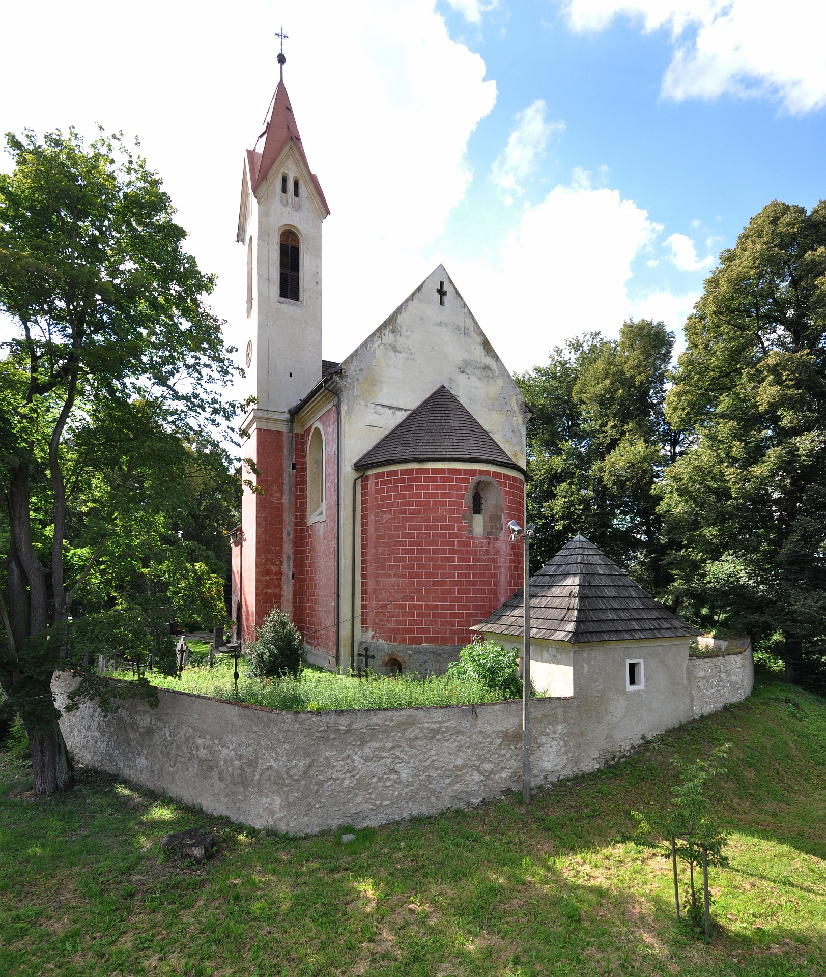 Mm120812-czbn-porici-nad-sazavou-kl-havel-0001-120812-DSC 0560